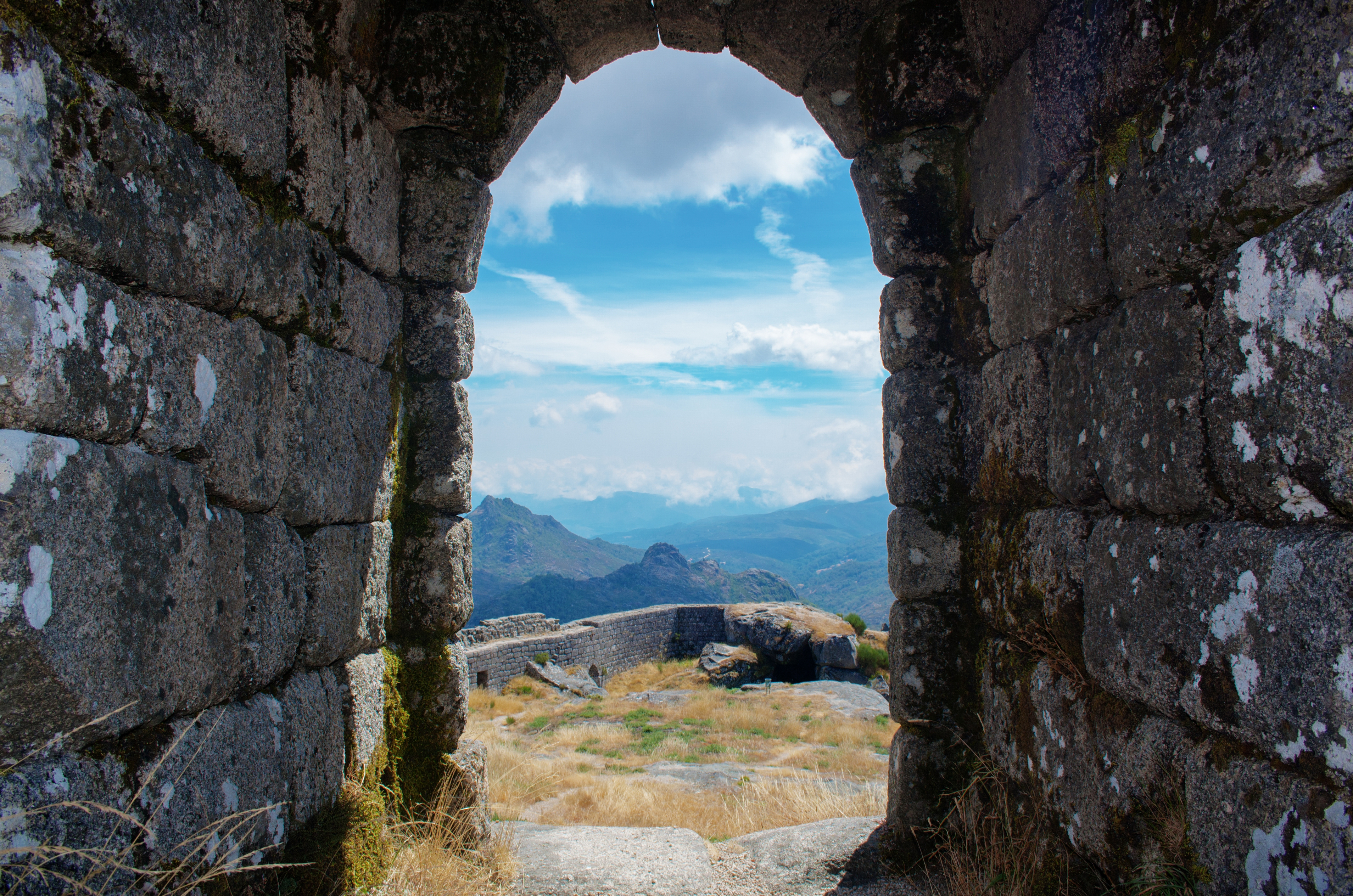 Castelo de Castro Laboreiro, Parque Nacional Peneda-Géres, Portugal